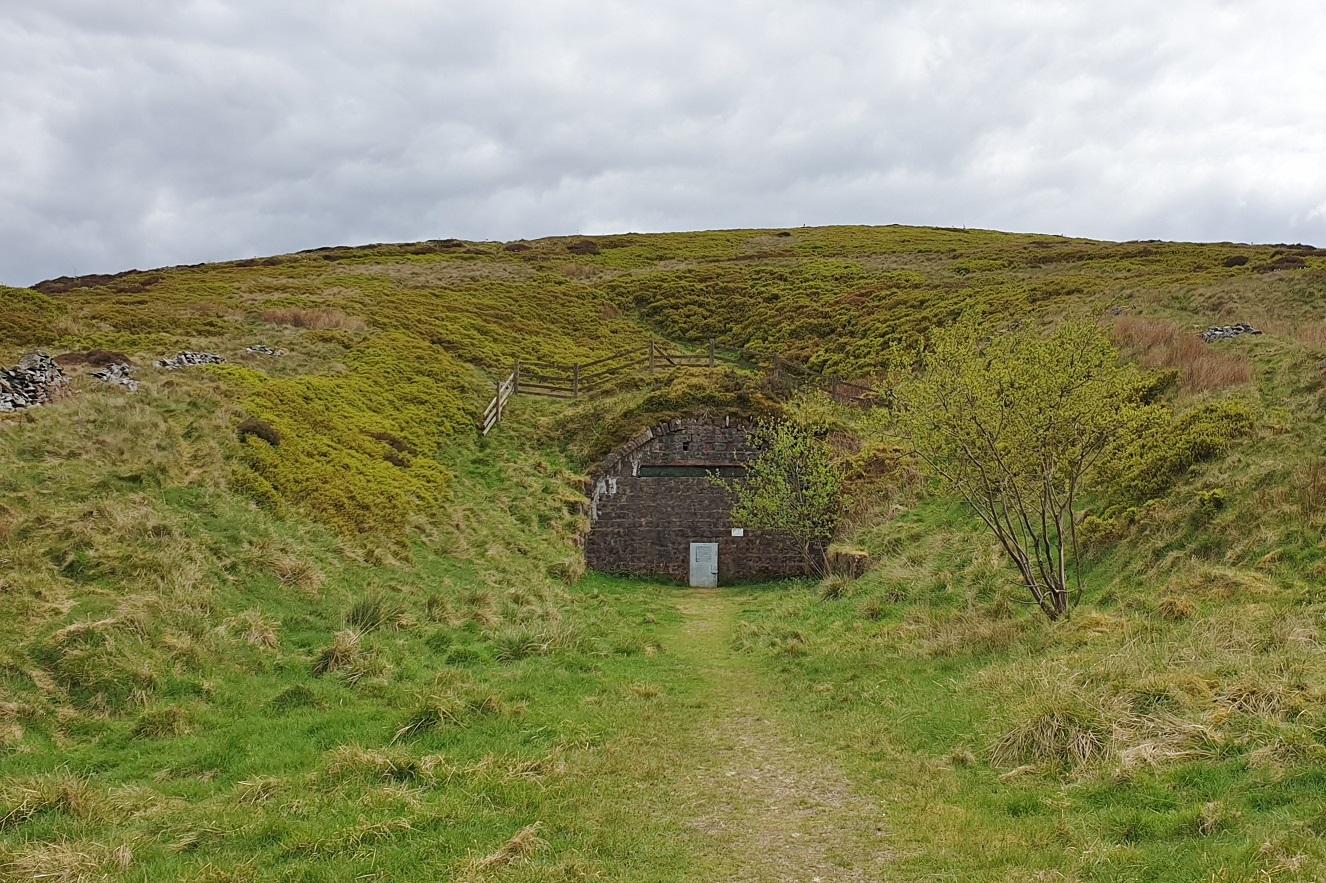 Disused Railway Tunnel Through Burbage Edge near Buxton in Derbyshire